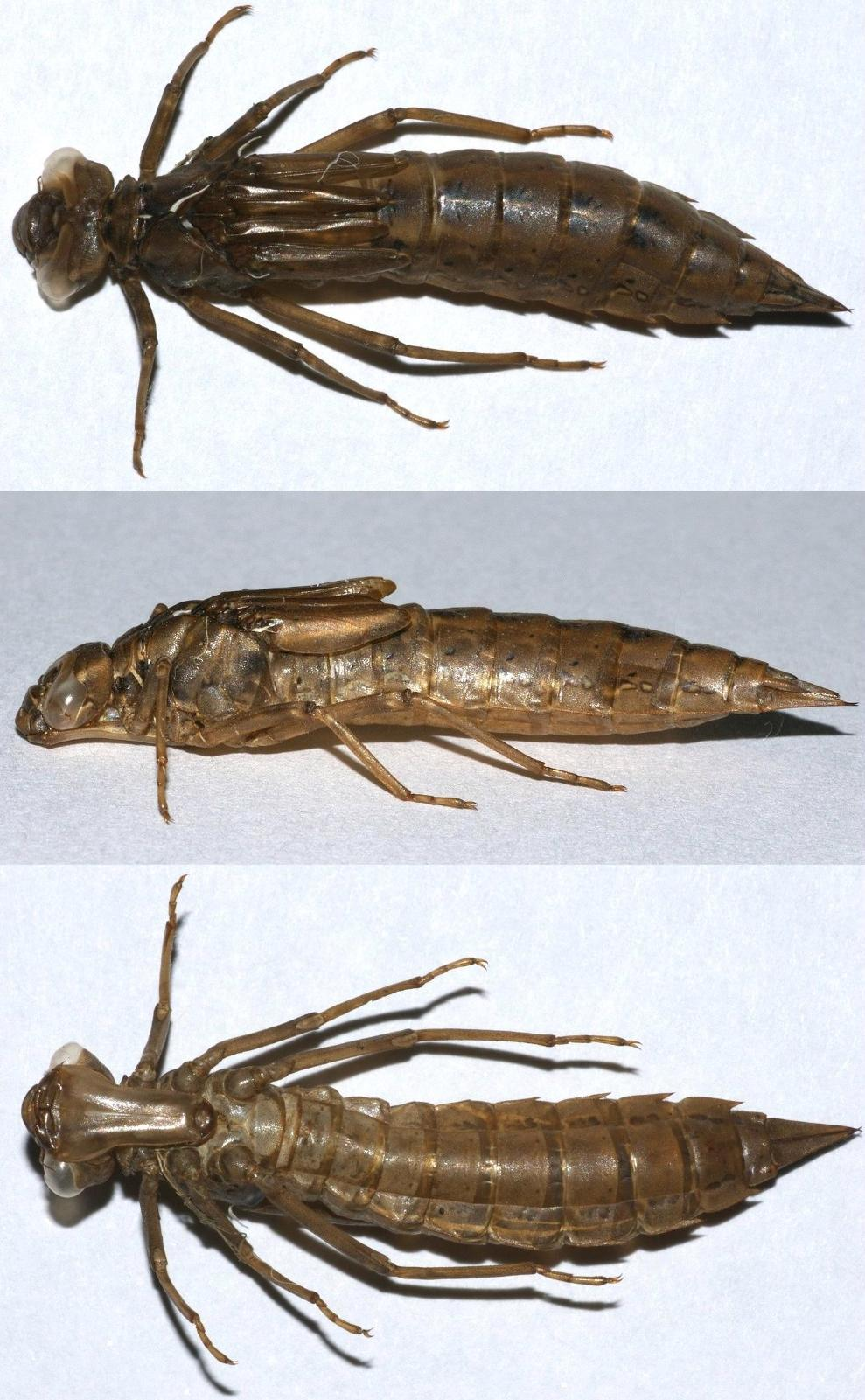 Exuvia of the dragonfly Aeshna cyanea (male); top: dorsal side, middle: lateral side, bottom: ventral side.